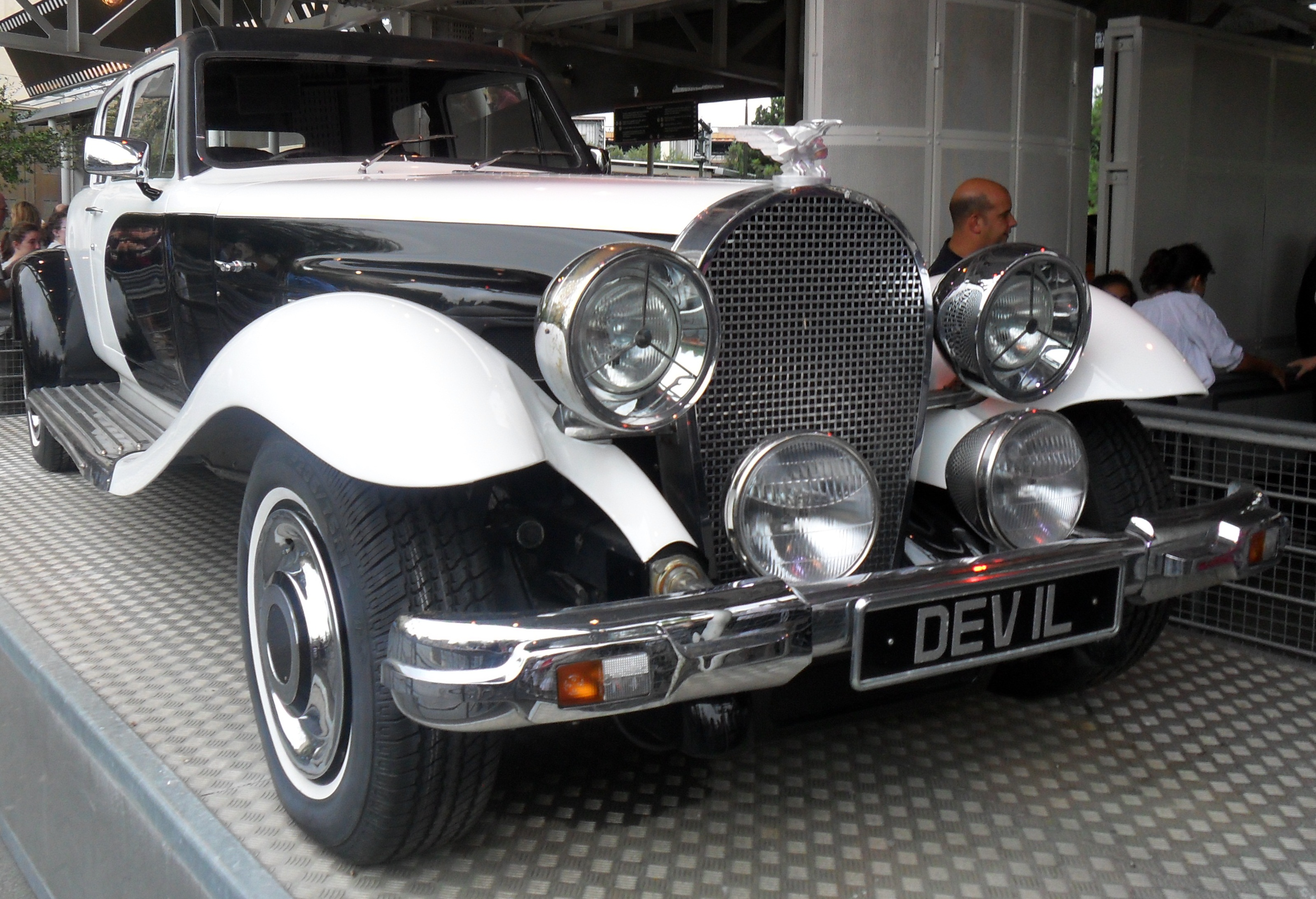 A customized Panther De Ville driven by Cruella de Vil from the film 102 Dalmatians at Walt Disney Studios Park in Disneyland Paris